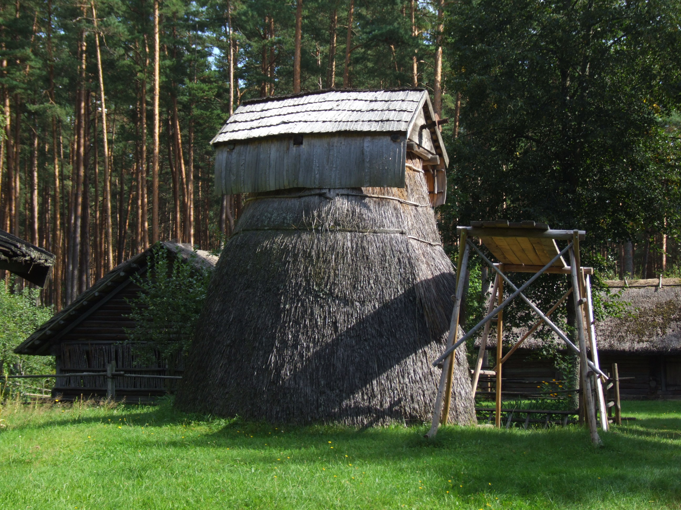 Latvian Ethnographic Open-Air Museum, Riga - windmill, early 20 cent., reconstructed in 1972